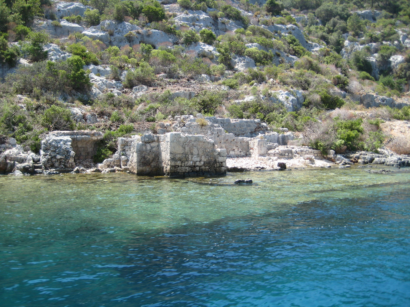 Kekova - Apollonia